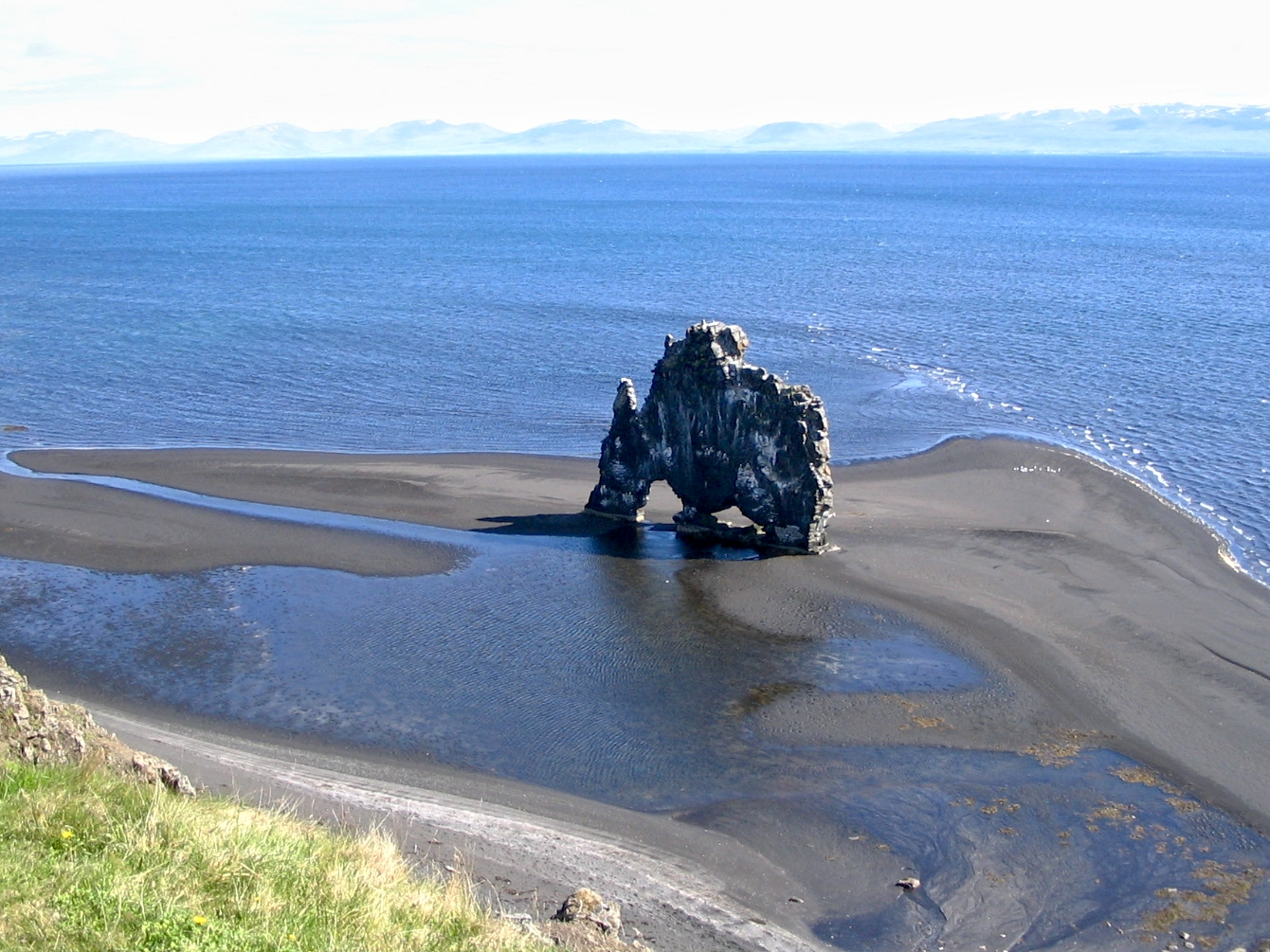 Hvítserkur at the end of Húnafjörður